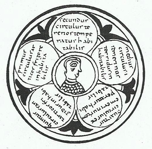 Illustration of the five zones of the earth taken from De Natura Rerum by Isidore of Seville. This led to use of the nickname of the book as "The book of wheels" in a poetic letter from the Visigoth king Sisebut to Isidore. It shows a complete misunderstanding of the five ("drum" shaped) zones of the world, from the Arctic to the Antarctic, which are here shown as circles next to each other. The text confirms this juxtaposition.